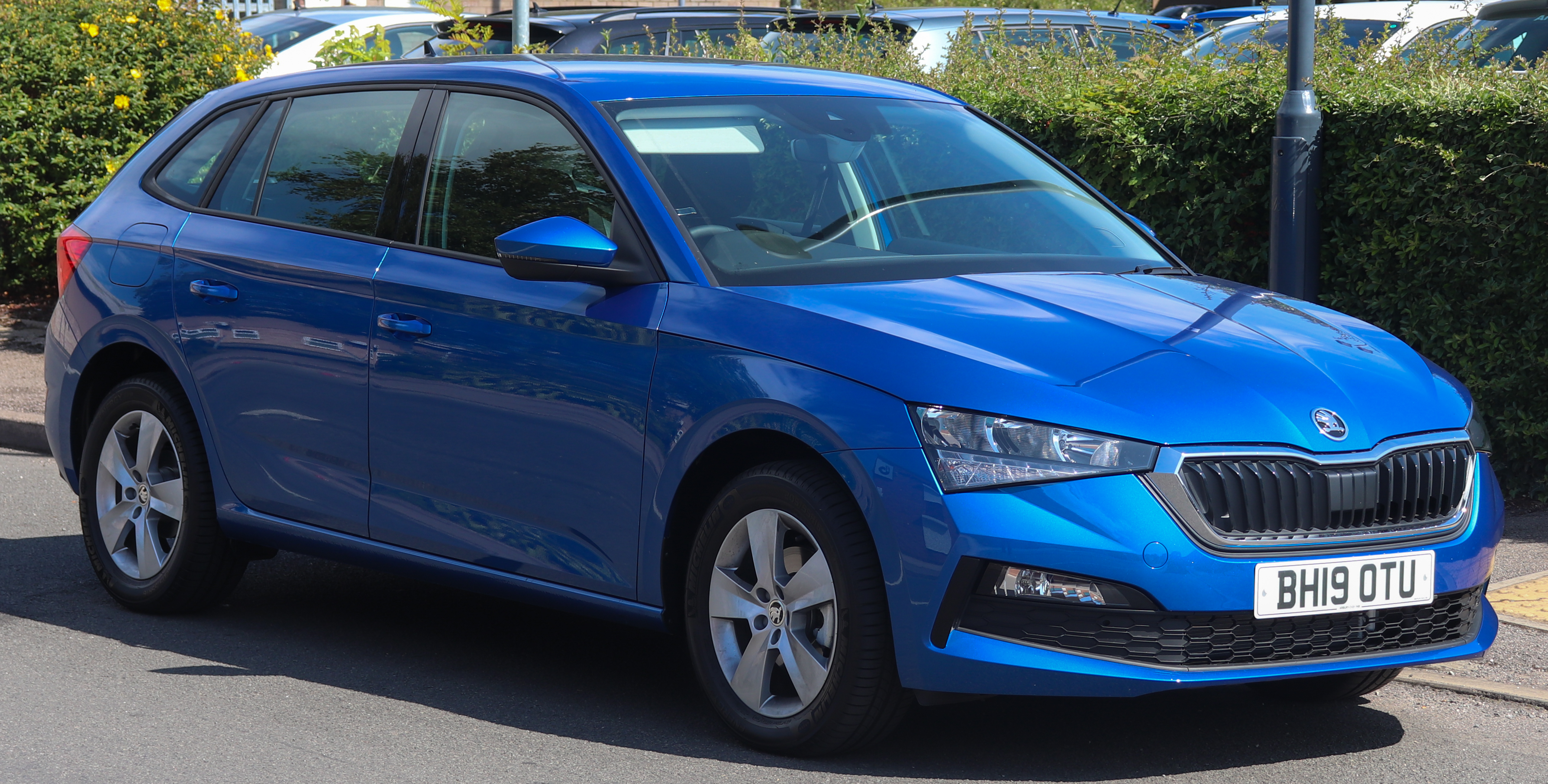 2019 Skoda Scala SE TDi 1.6 Front Taken in Sydenam, Leamington Spa